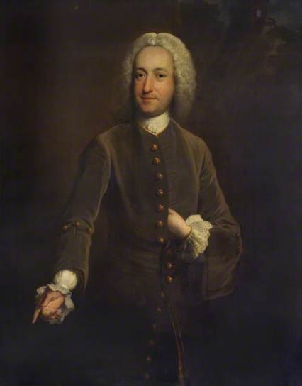 Depicted person: Isaac Hawkins Browne (1705–1760), Poet